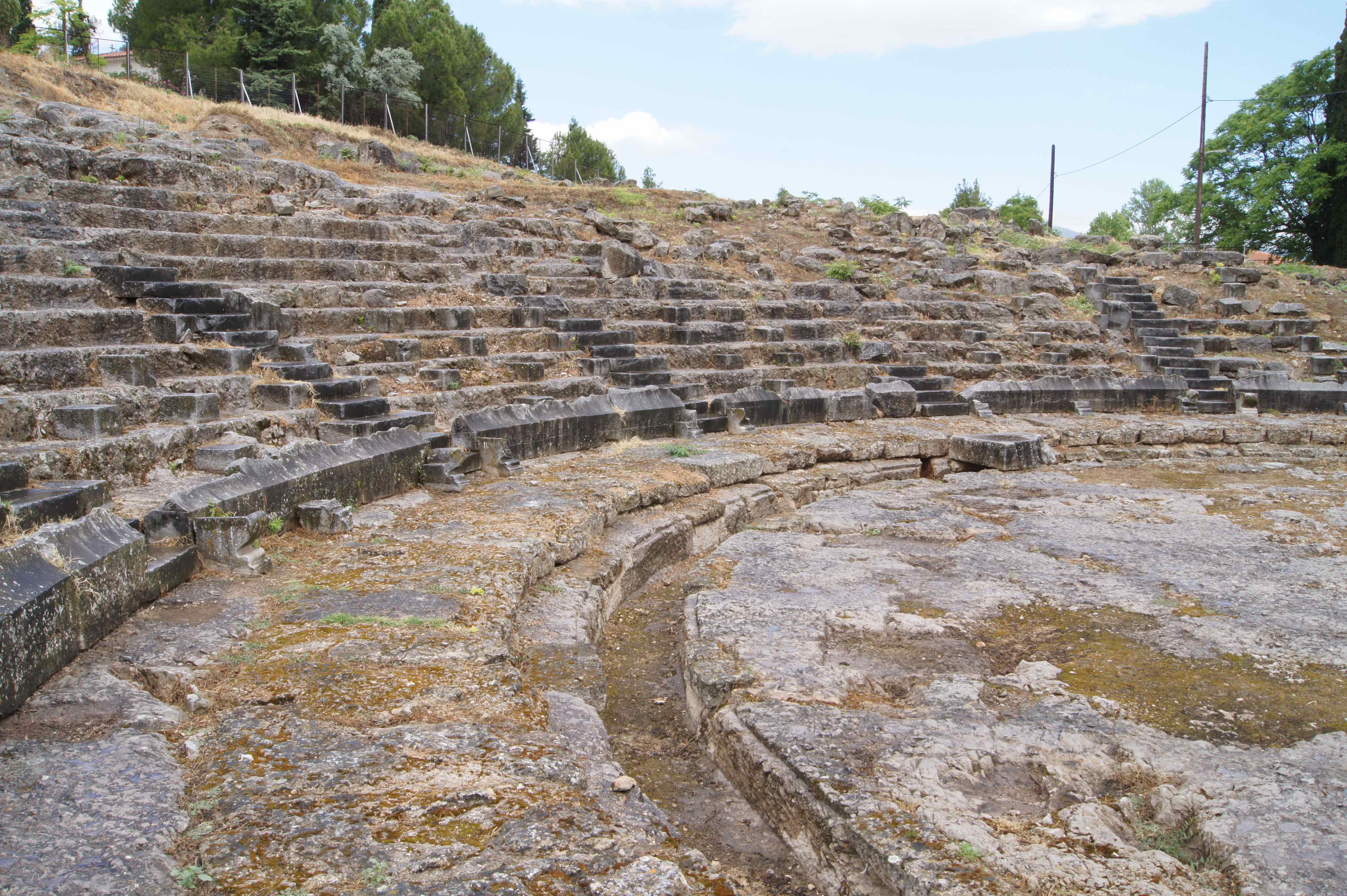 Orchomenos theatre